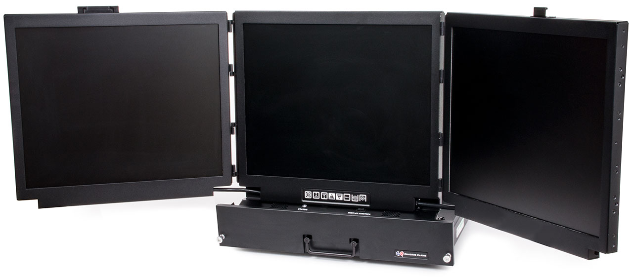 TFX-19 Rack Mount Trifold KVM (Keyboard Video Monitor)